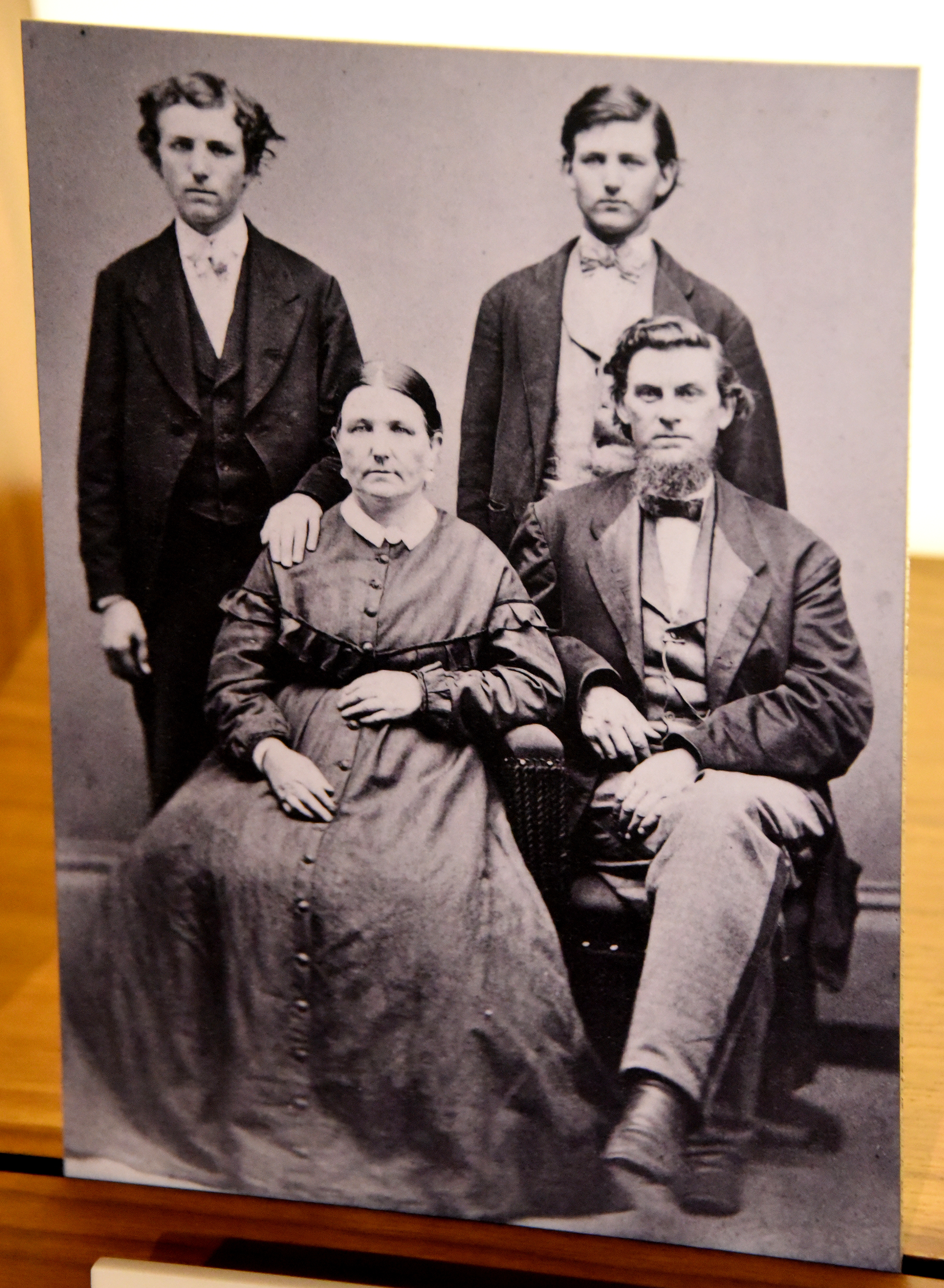 Wellcome family portrait, c. 1875-1877. The picture is housed in the Wellcome Collection and is on display. The original black&white picture is ©Wellcome Trust.